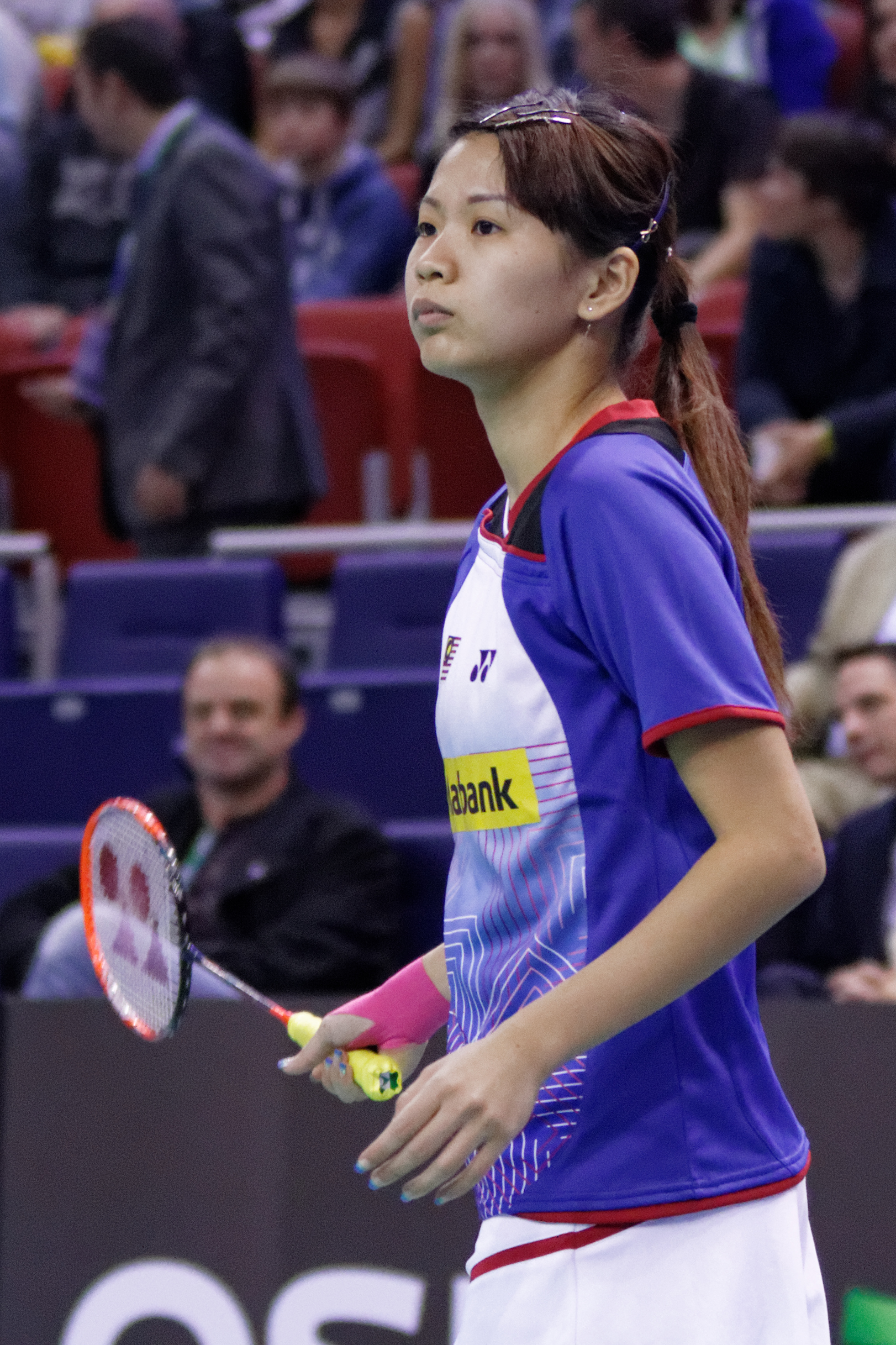 2013 French open. Mixed's doubles eightfinal. Chan Peng Soon and Goh Liu Ying vs Chris Langridge and Heather Olver.